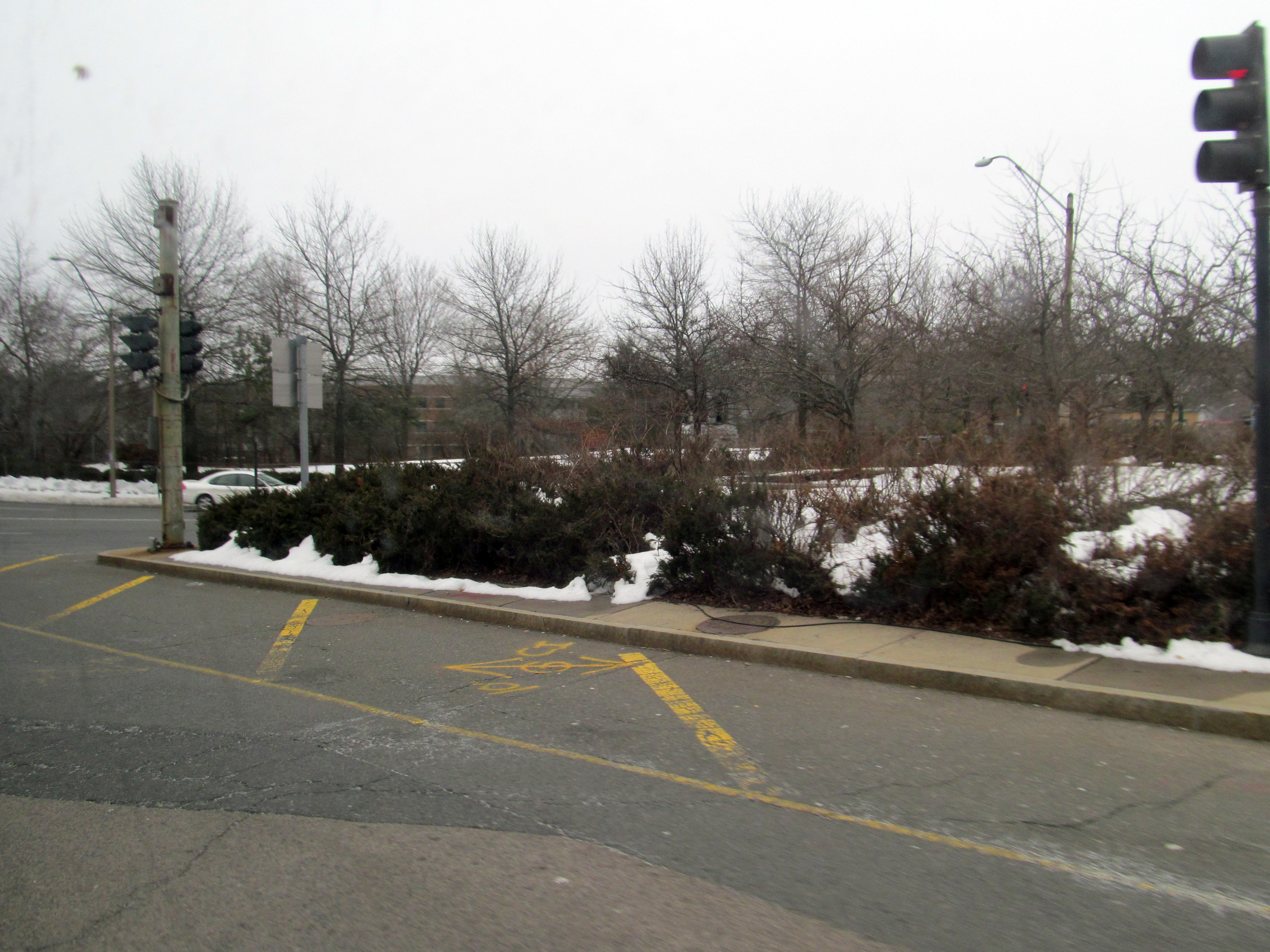 Location of former trolley platforms at Newton Corner